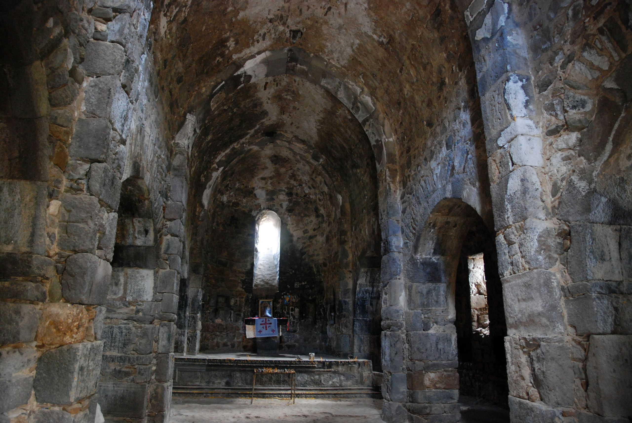 Shativank, inside church